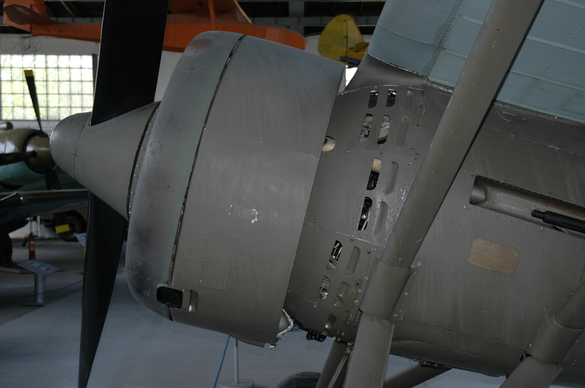 Townend ring around the engine of the PZL P.11c fighter